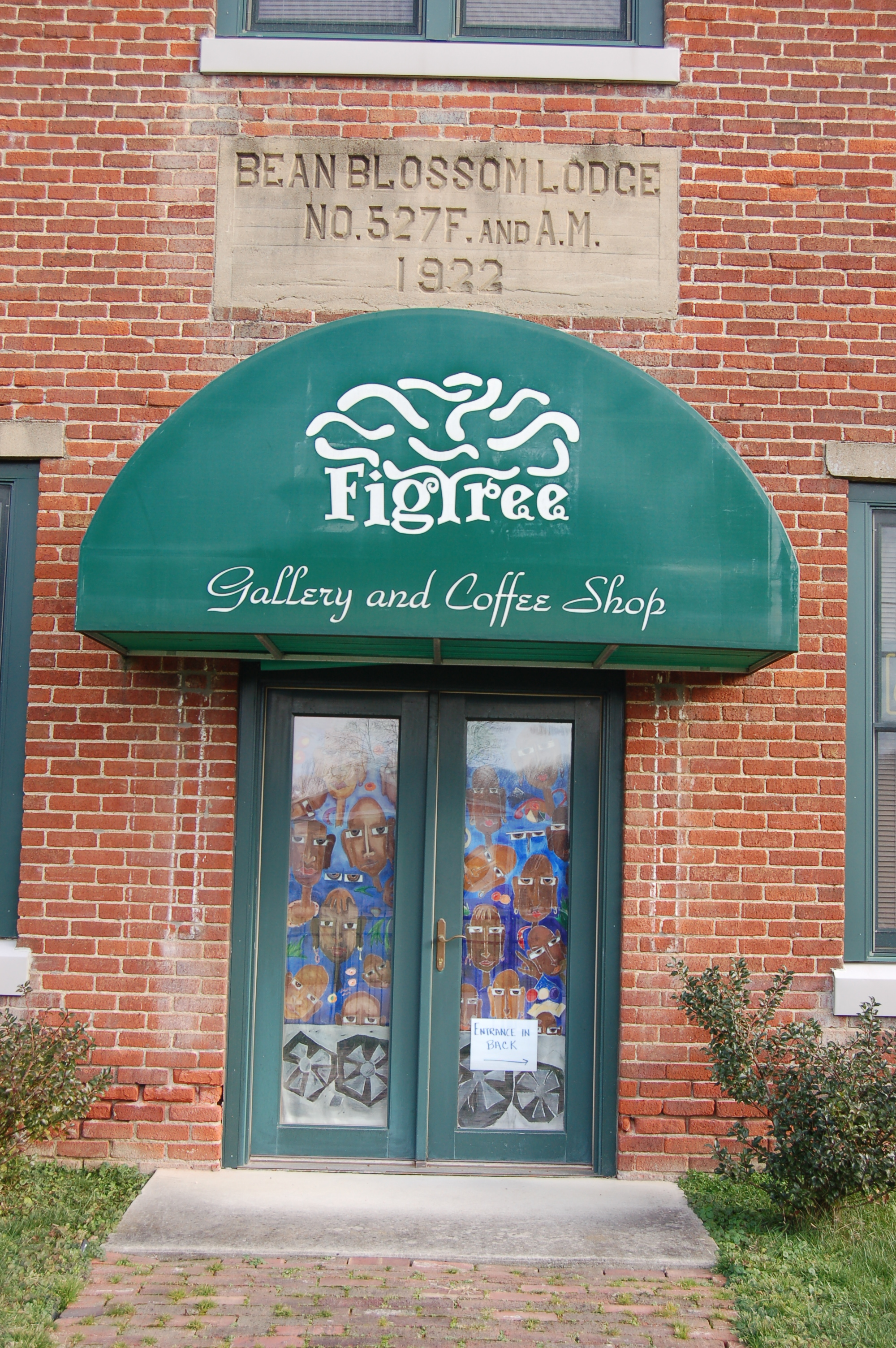 The Figtree Gallery and Coffee Shop.